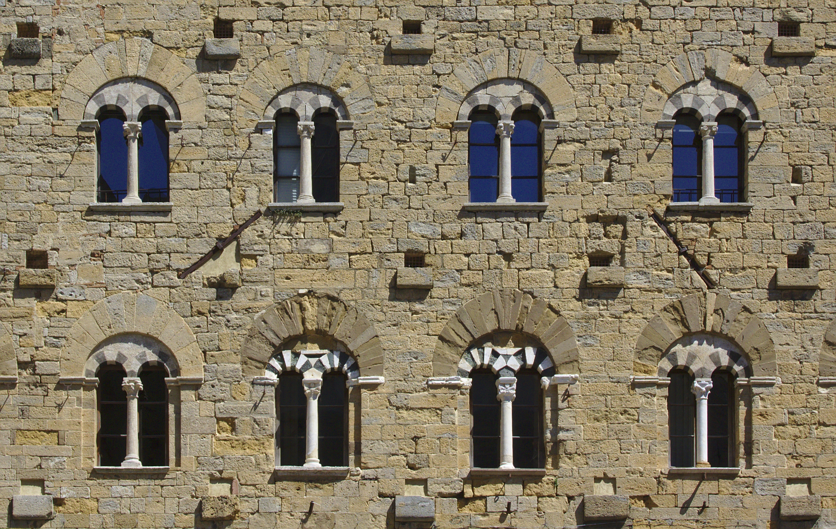 Detail of the windows of Palazzo Pretorio. Volterra, April 2014. This is a photo of a monument which is part of cultural heritage of Italy.